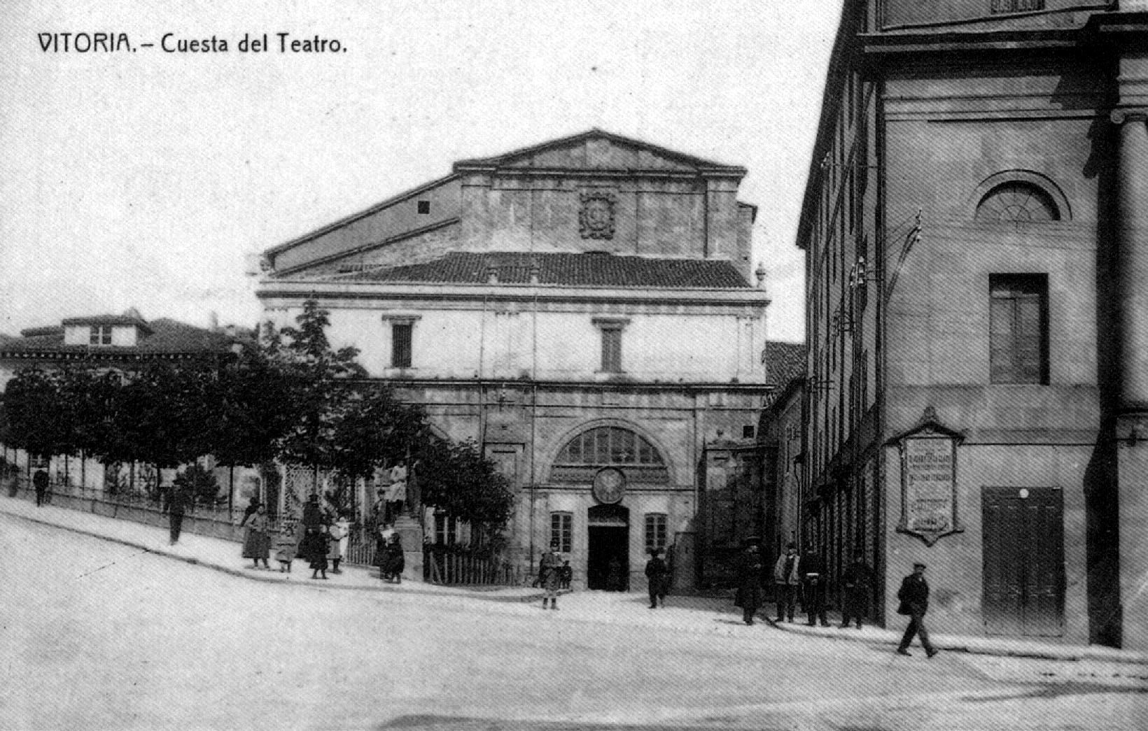 Facade of the Convent of Saint Francis (the building at center), Vitoria-Gasteiz.